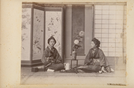 A woman teaches to another woman Ikebana